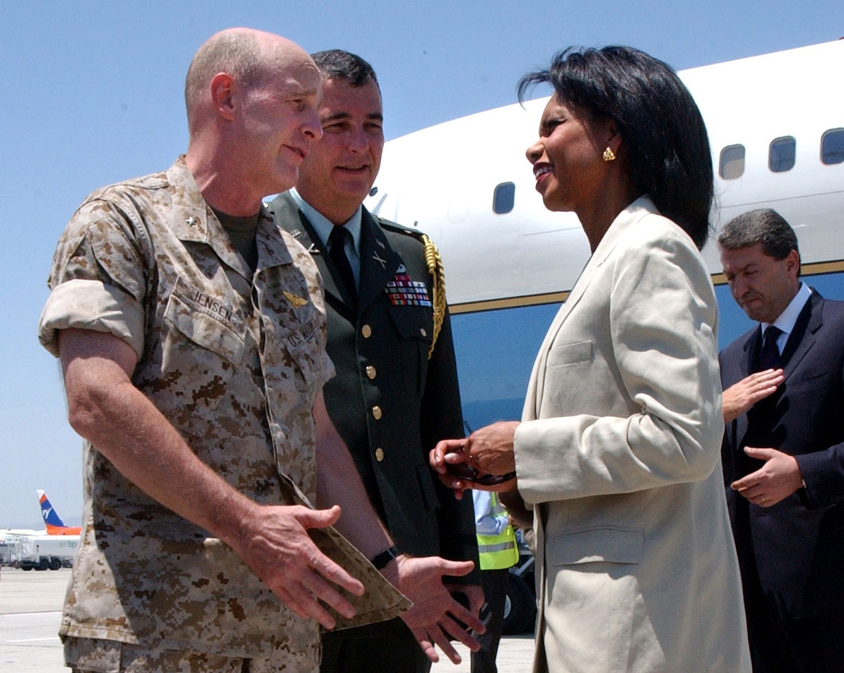 United States Secretary of State Condoleezza Rice speaks with United States Marine Corps Brig. Gen. Carl Jensen (left), commander of Task Force 59, and U.S. Army Lt. Col. Tom Mooney, defense attaché to the American Embassy in Cyprus, upon her arrival in Larnaca, Cyprus